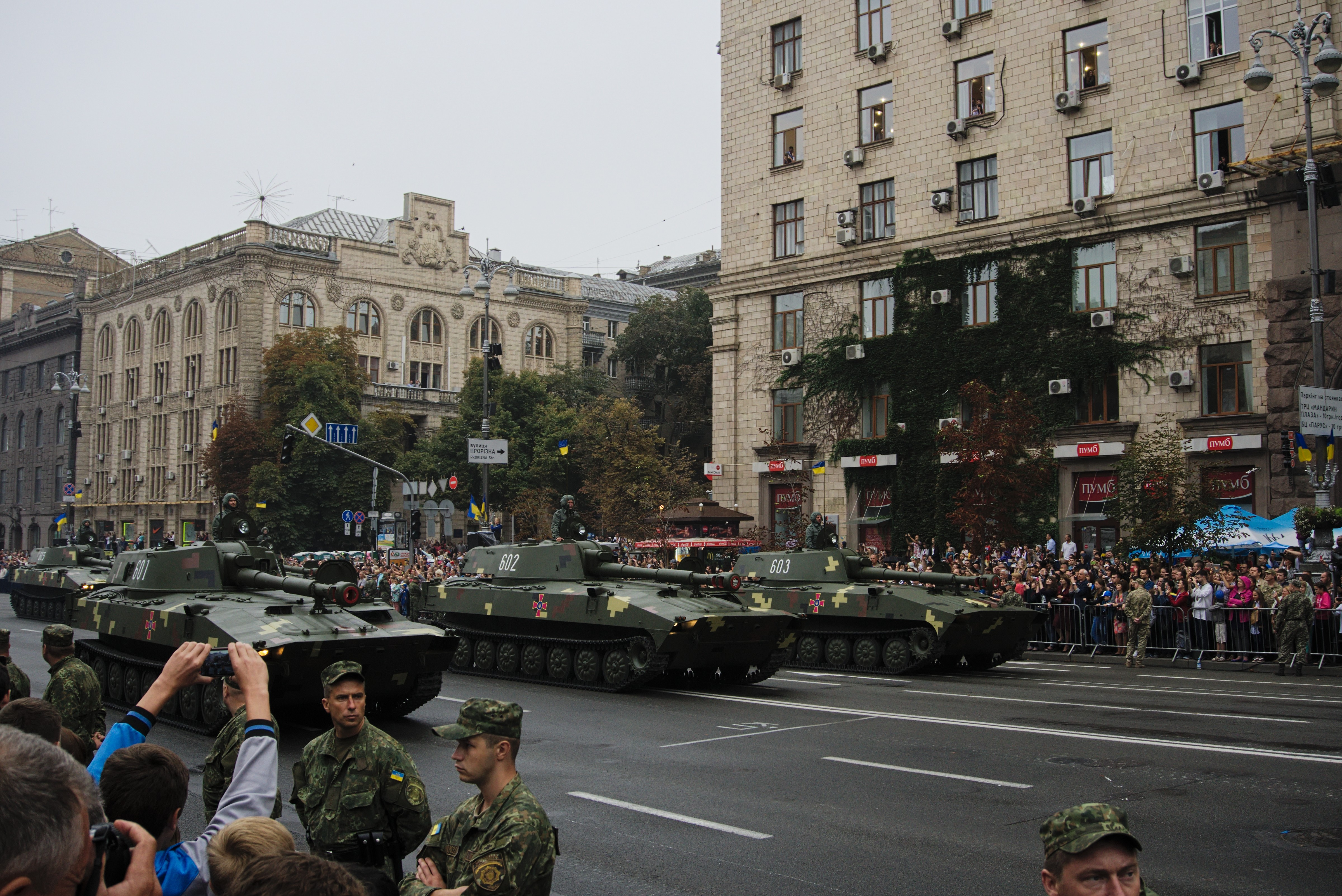 Gvozdika (72nd Guards Mechanized Brigade)